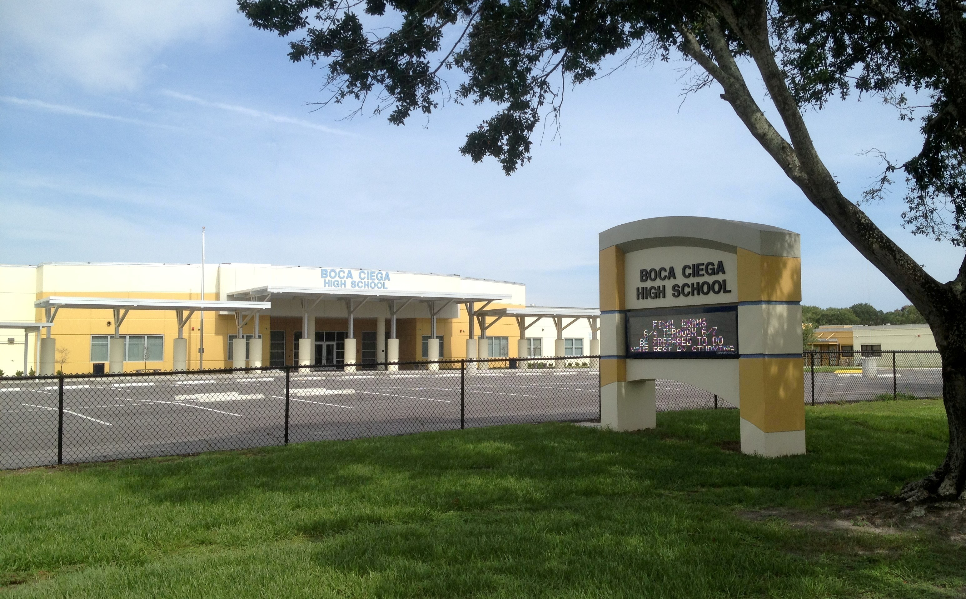 Boca Ciega High School, Gulfport, Florida